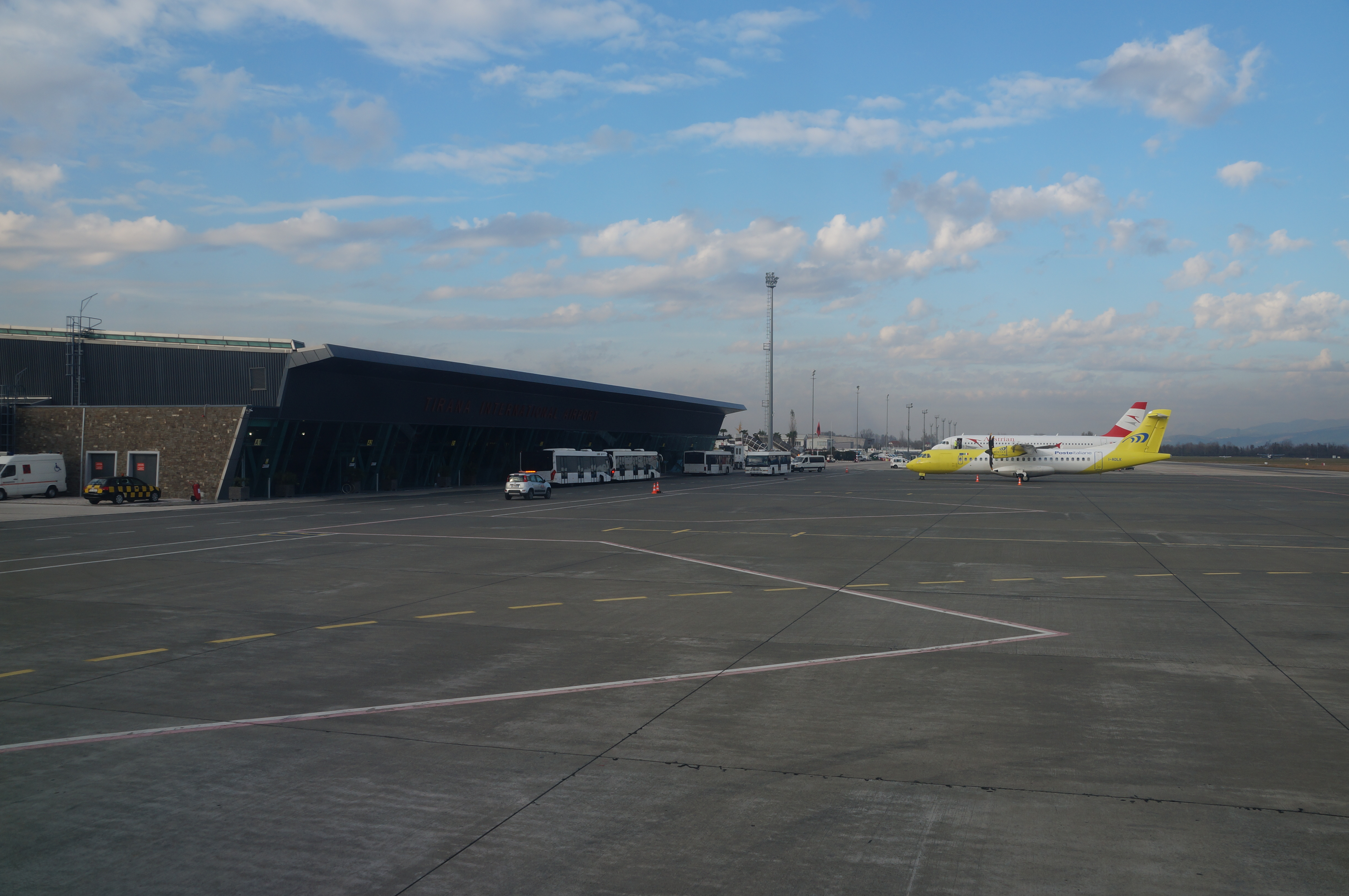 Tirana International Airport Terminal and apron